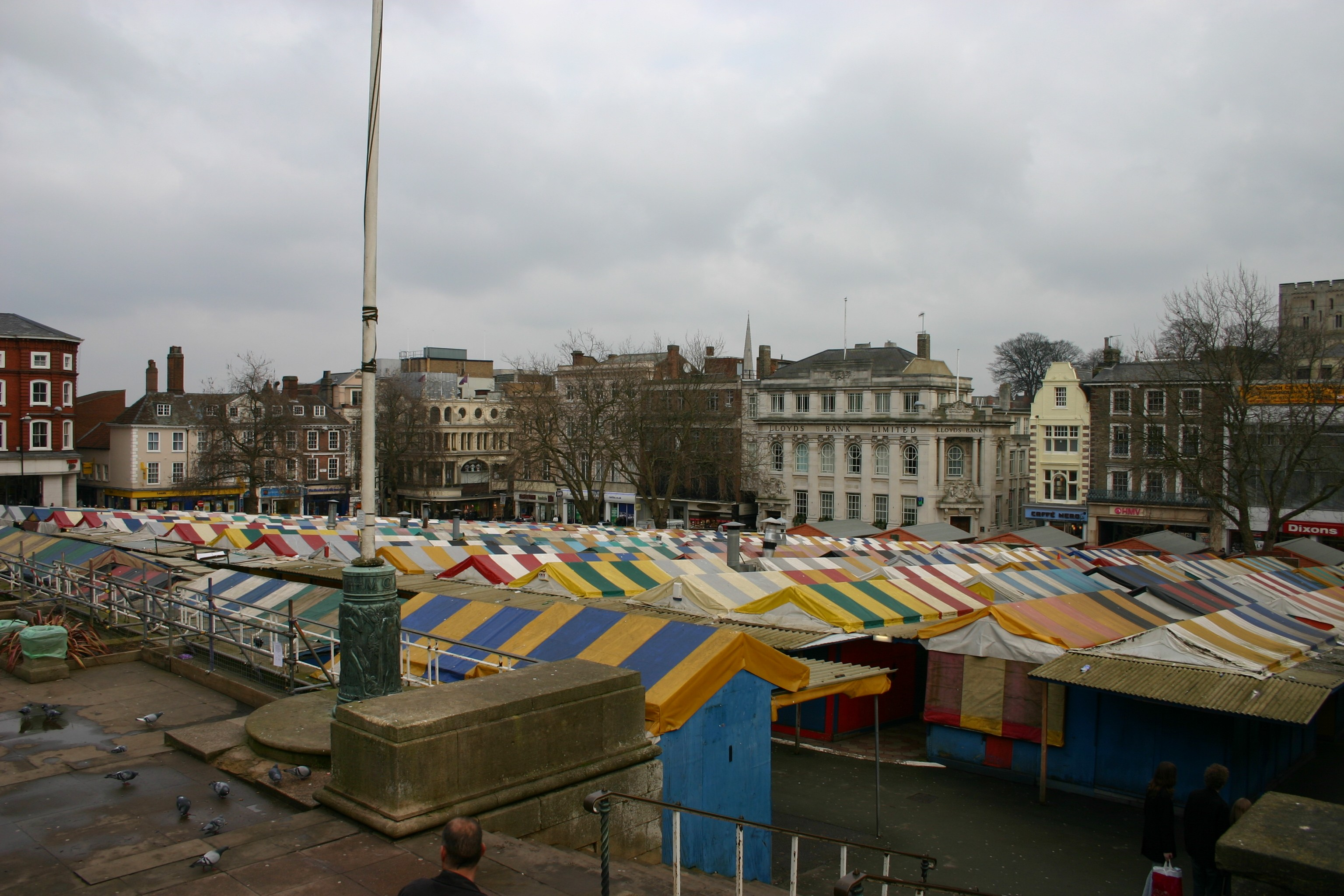 Market place in Norwich (England)